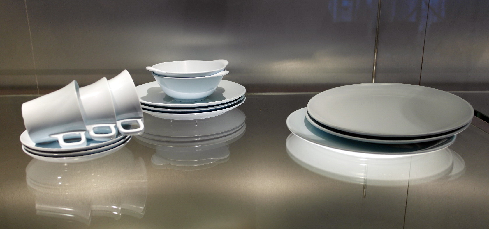 Tableware Mosalite made of melamine, produced by Mosa potteries in Maastricht from 1960 till 1962, Collection Henk van Buren, now in Centre Ceramique, Maastricht, the Netherlands.